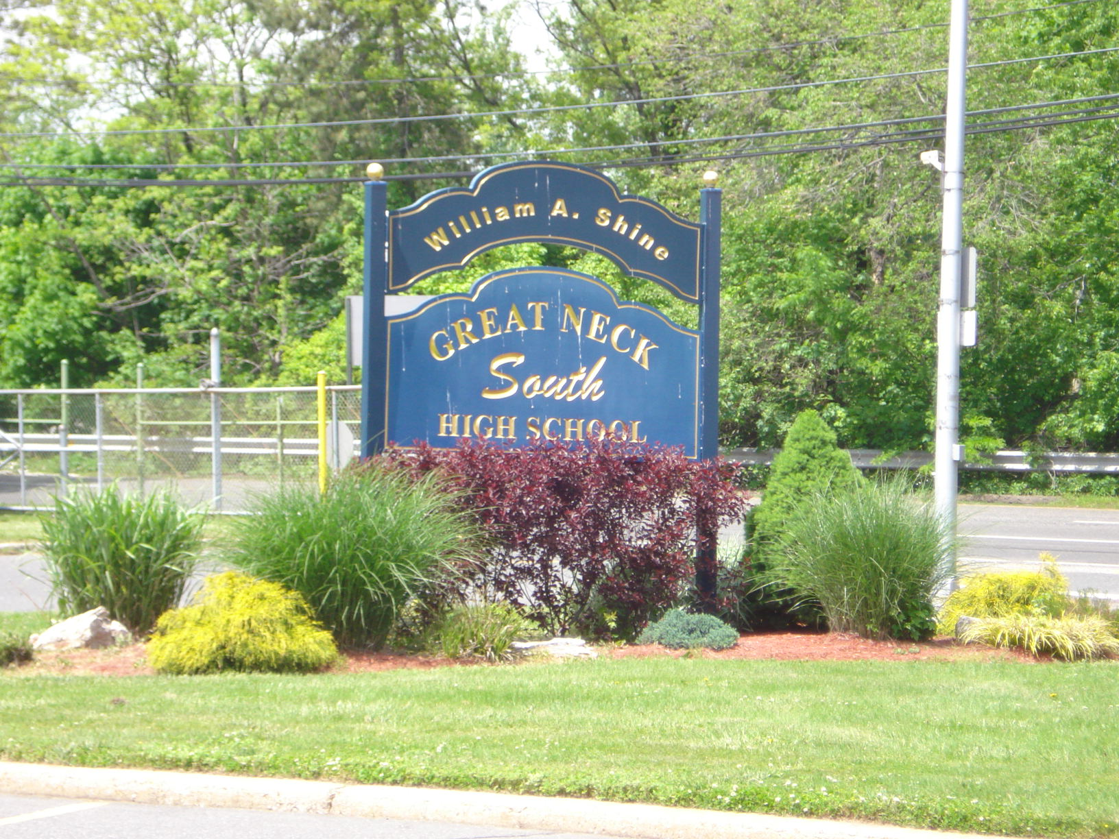 During my visit to Great Neck, I took a photo of the Great Neck South High School sign on May 22, 2009.